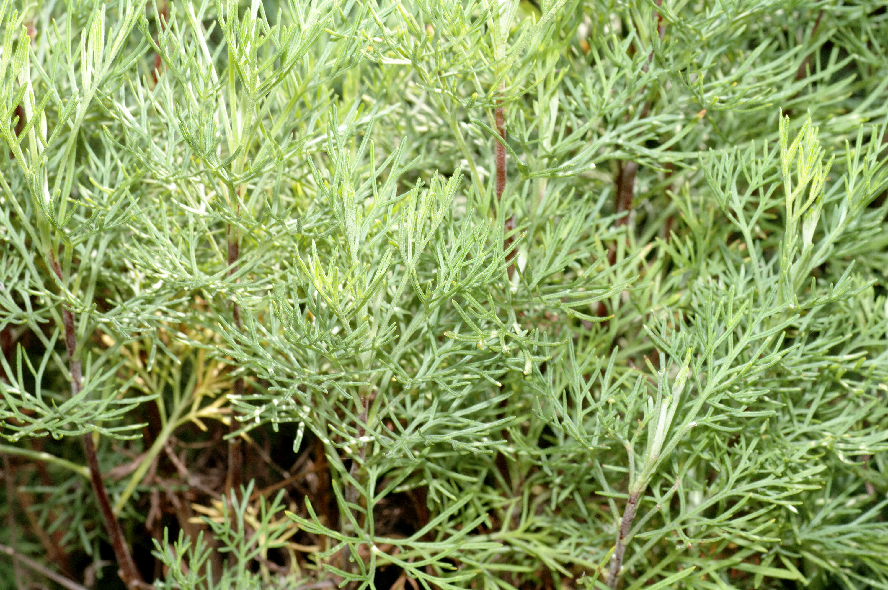 This image shows Southernwood (Artemisia abrotanum). It has been taken at the island Mainau.